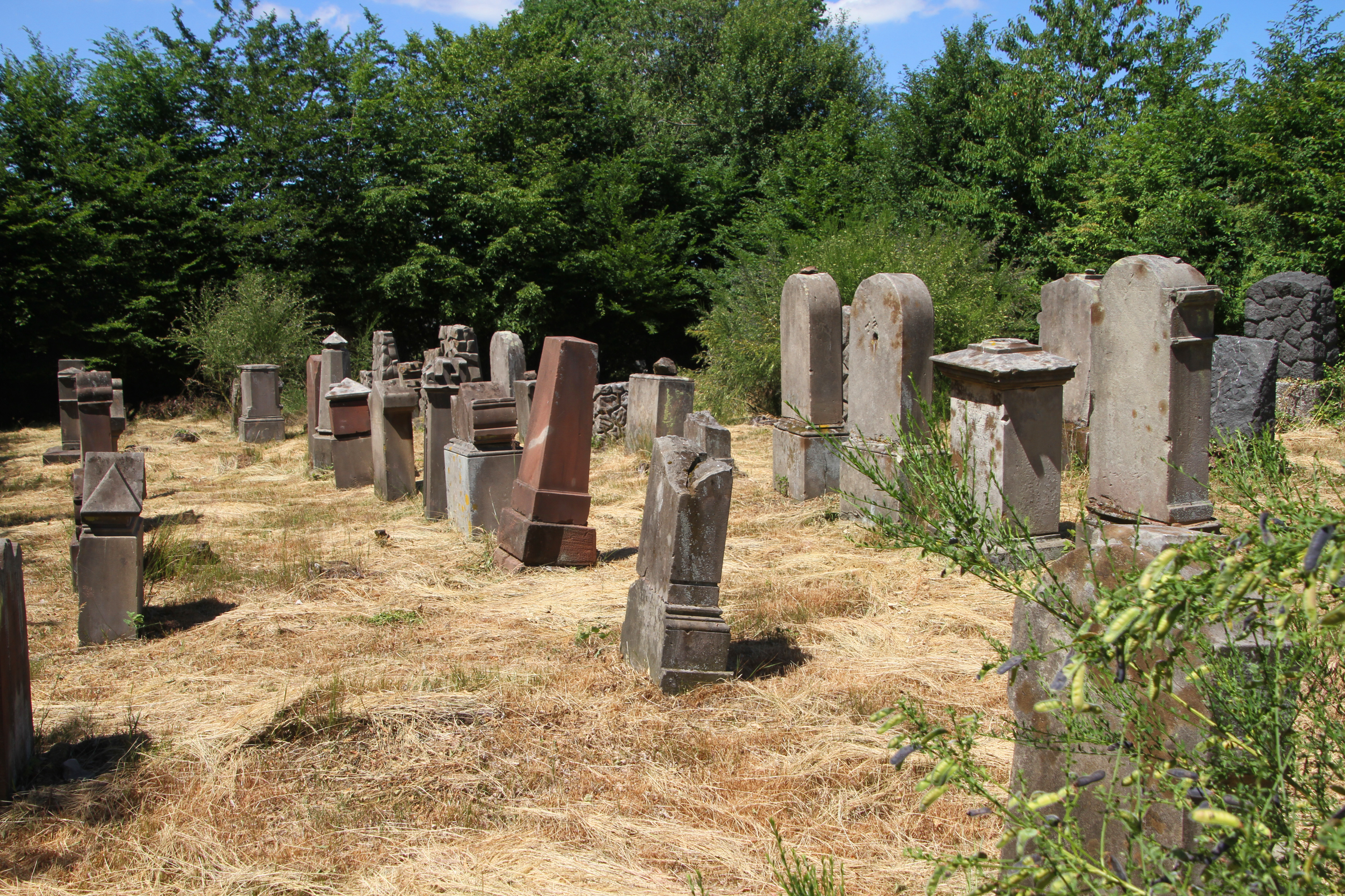 Jewish cemetery in Herschberg, Rhineland-Palatinate.